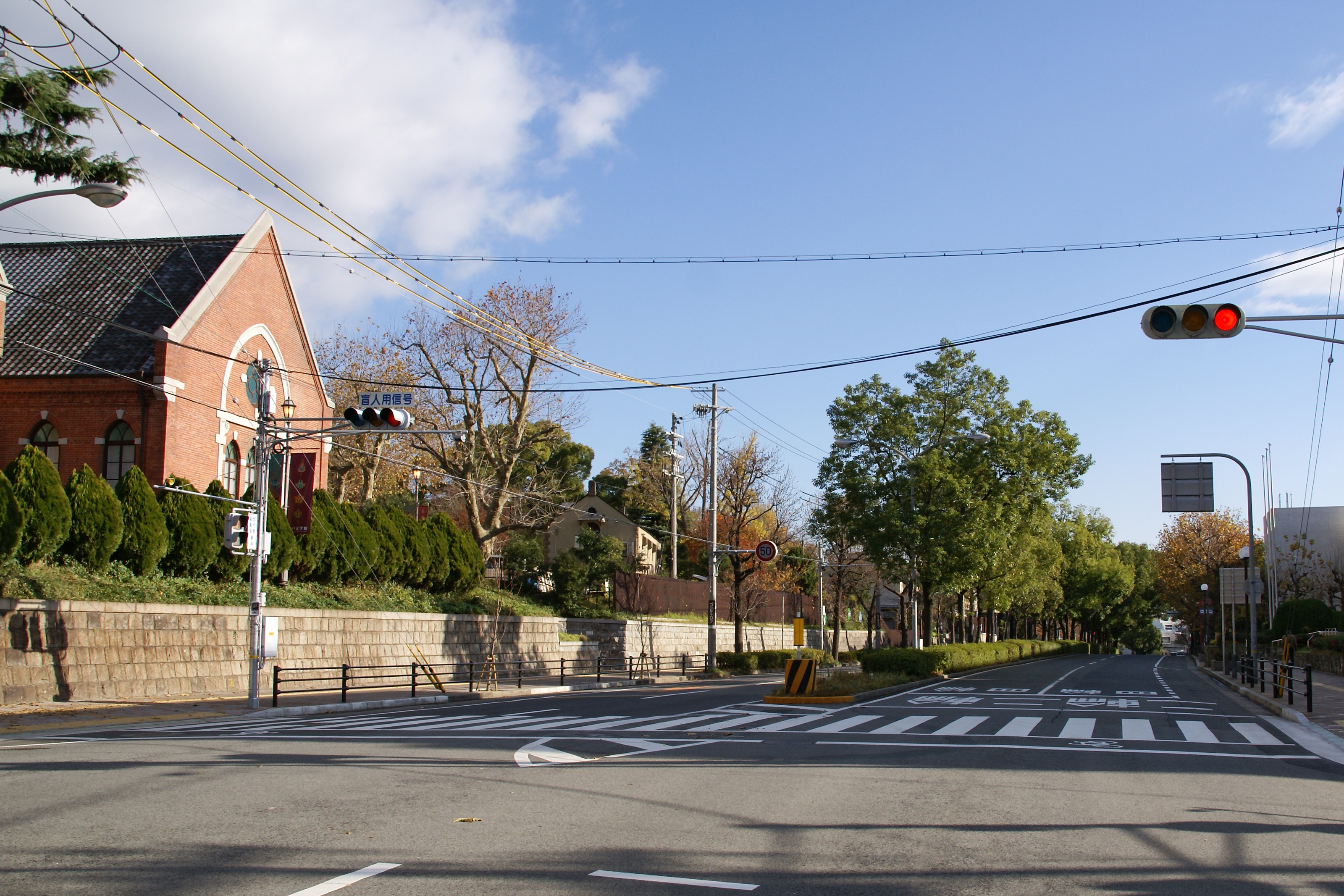 Harada street in Nada, Kobe, Hyogo prefecture, Japan